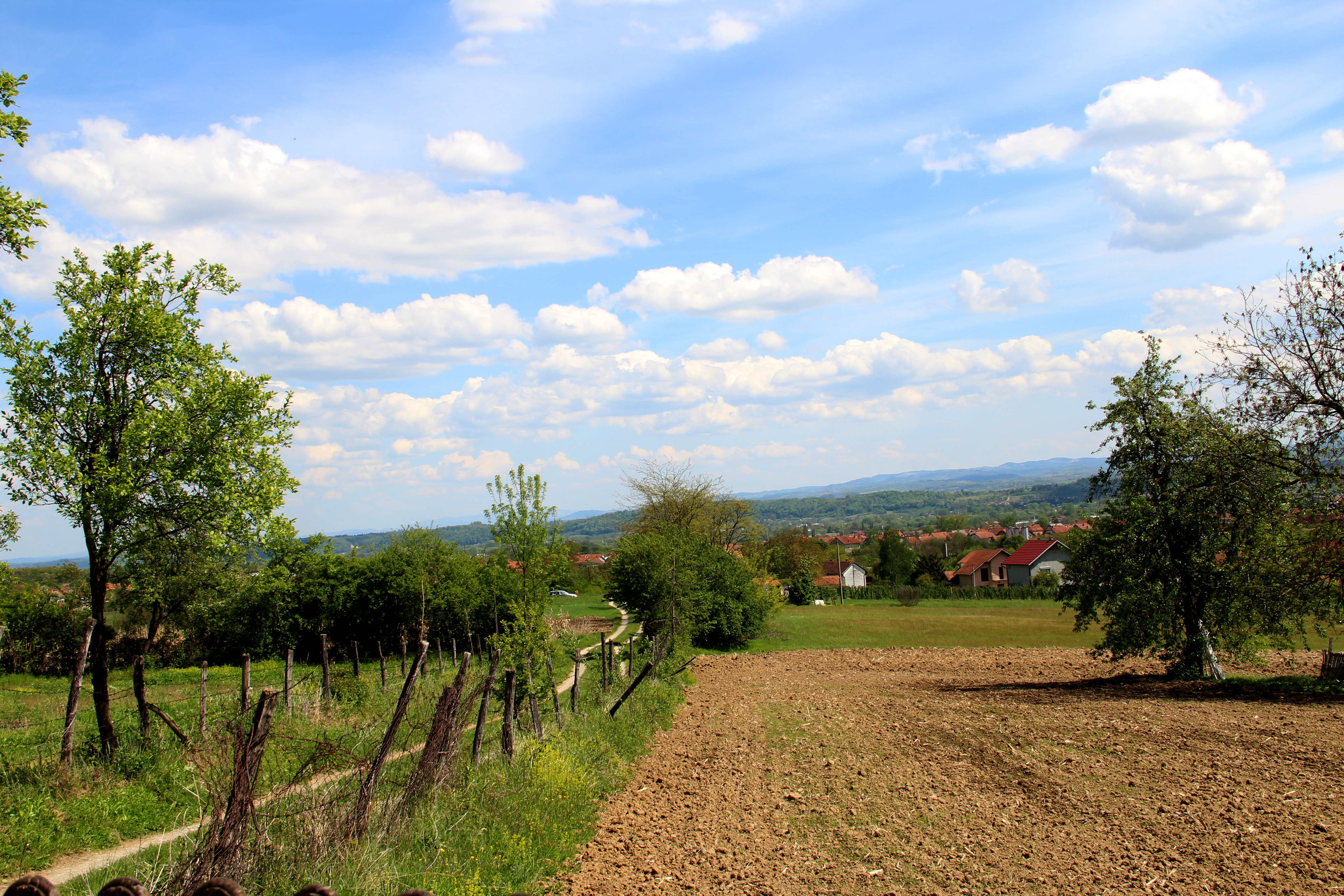 Jasenica village - Municipality of Valjevo - Western Serbia - Panorama 2